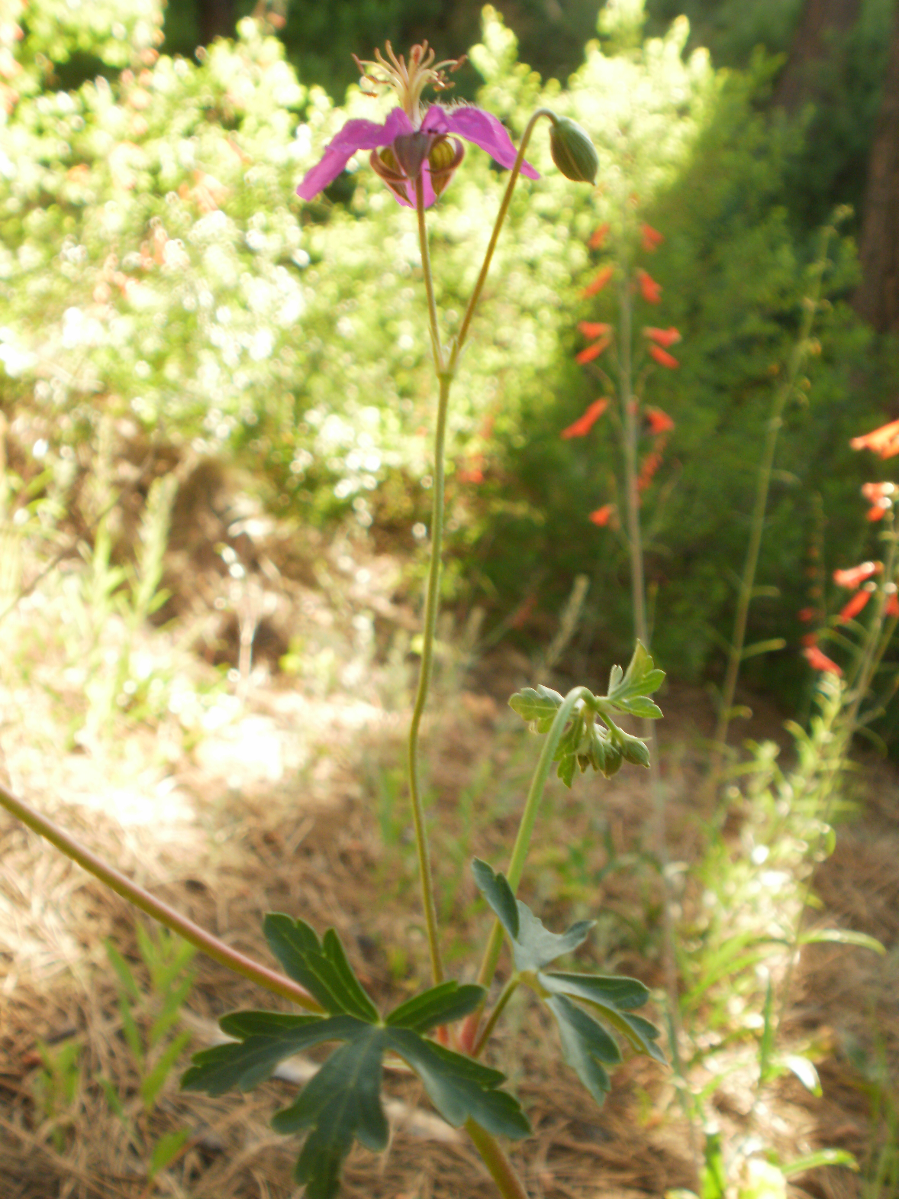 Geranium caespitosum next to Penstemon barbados.